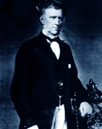 This is a photograph of Charles Fitzgerald (1791–1887), Governor of the Gambia, Governor of Western Australia.